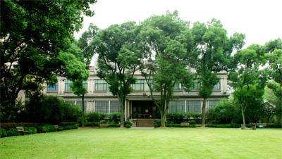 building of U.S. Consulate General in Shanghai